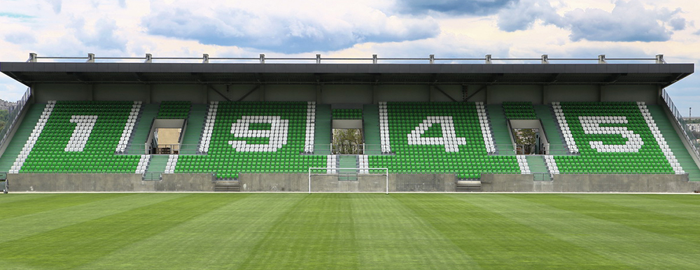 The updated "Ludogorets Arena" and the rostrum "Mochi" in Razgrad ,Bulgaria.